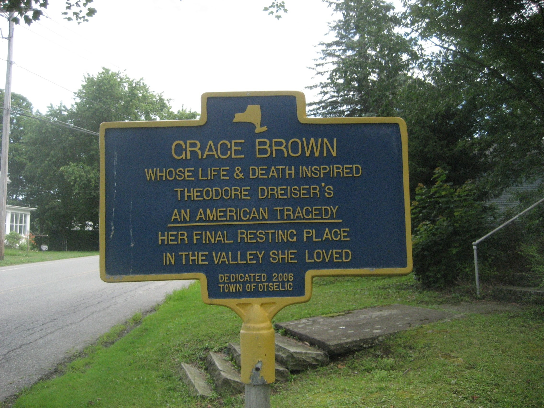 Historic marker of Grace Brown, that inspired Theodore Dreiser's novel "An American Tragedy".